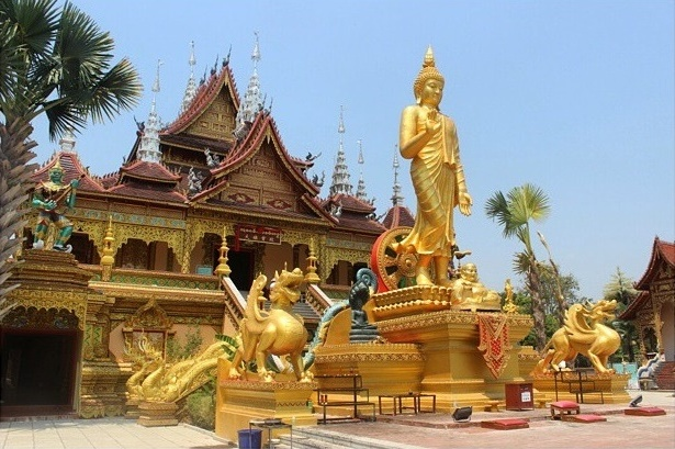 A temple of Dai (Theravada) Buddhism in Jinghong, Xishuangbanna, Yunnan, China.